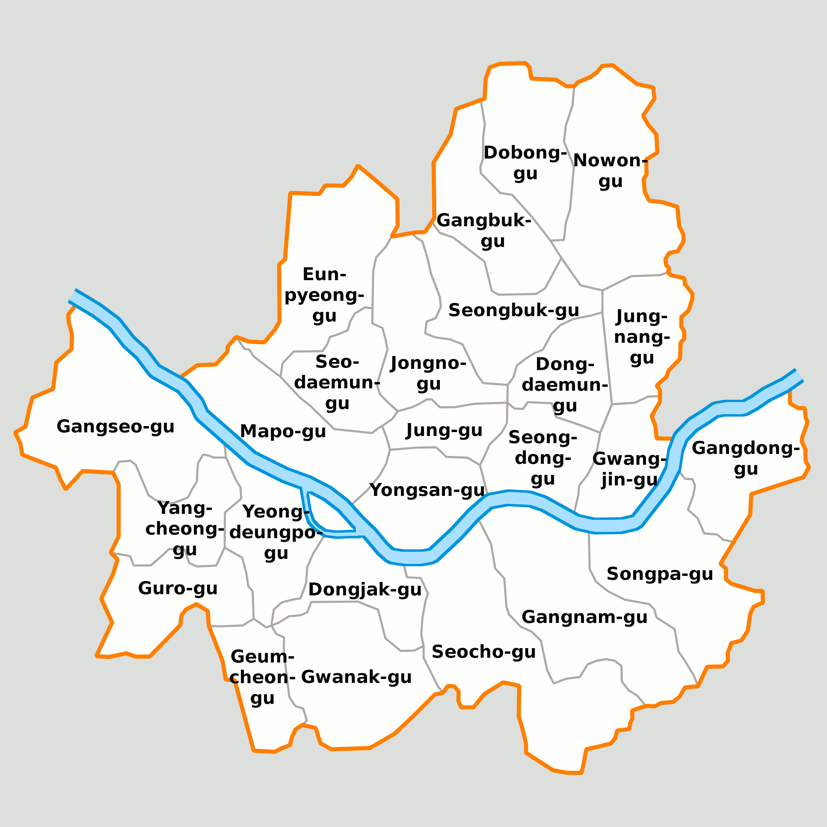 Districts of Seoul with romanizied labels